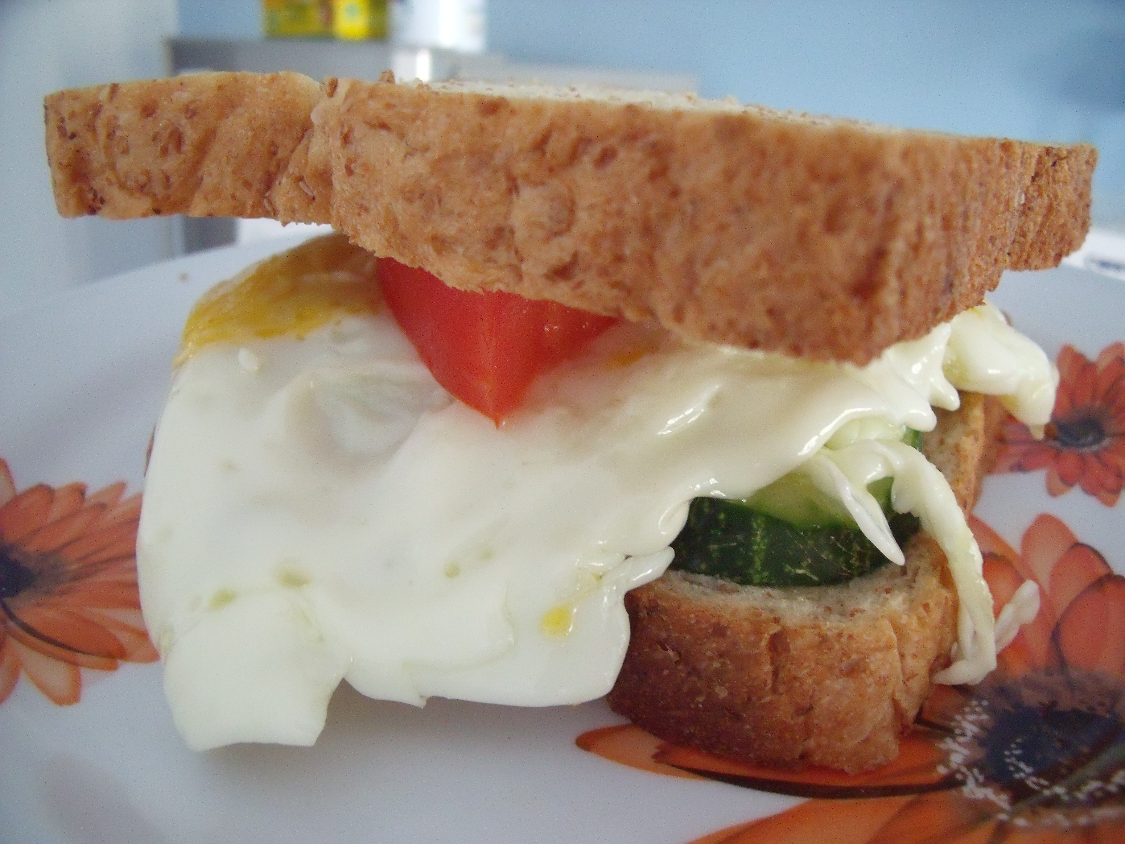 My breakfast on the first day of 2011.